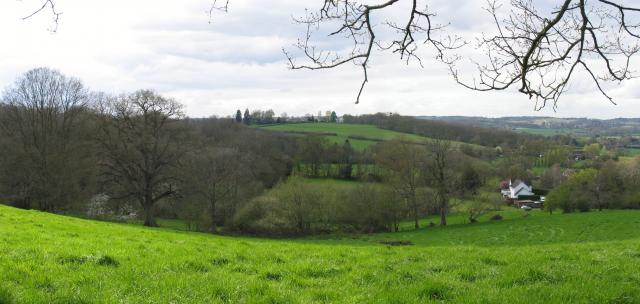 Hillfoot Farm taken from the Bucklebury/Stanford Dingley Fork. This view is taken looking west from the road to Bucklebury.